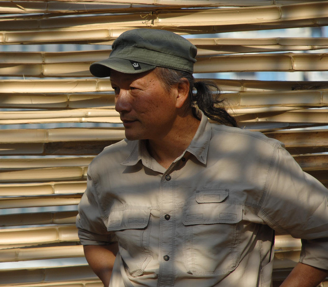 Architect Hsieh Ying-chun / WEAK! @ Bug Dome, SZHK Biennale 2009. Photo: Marco Casagrande.